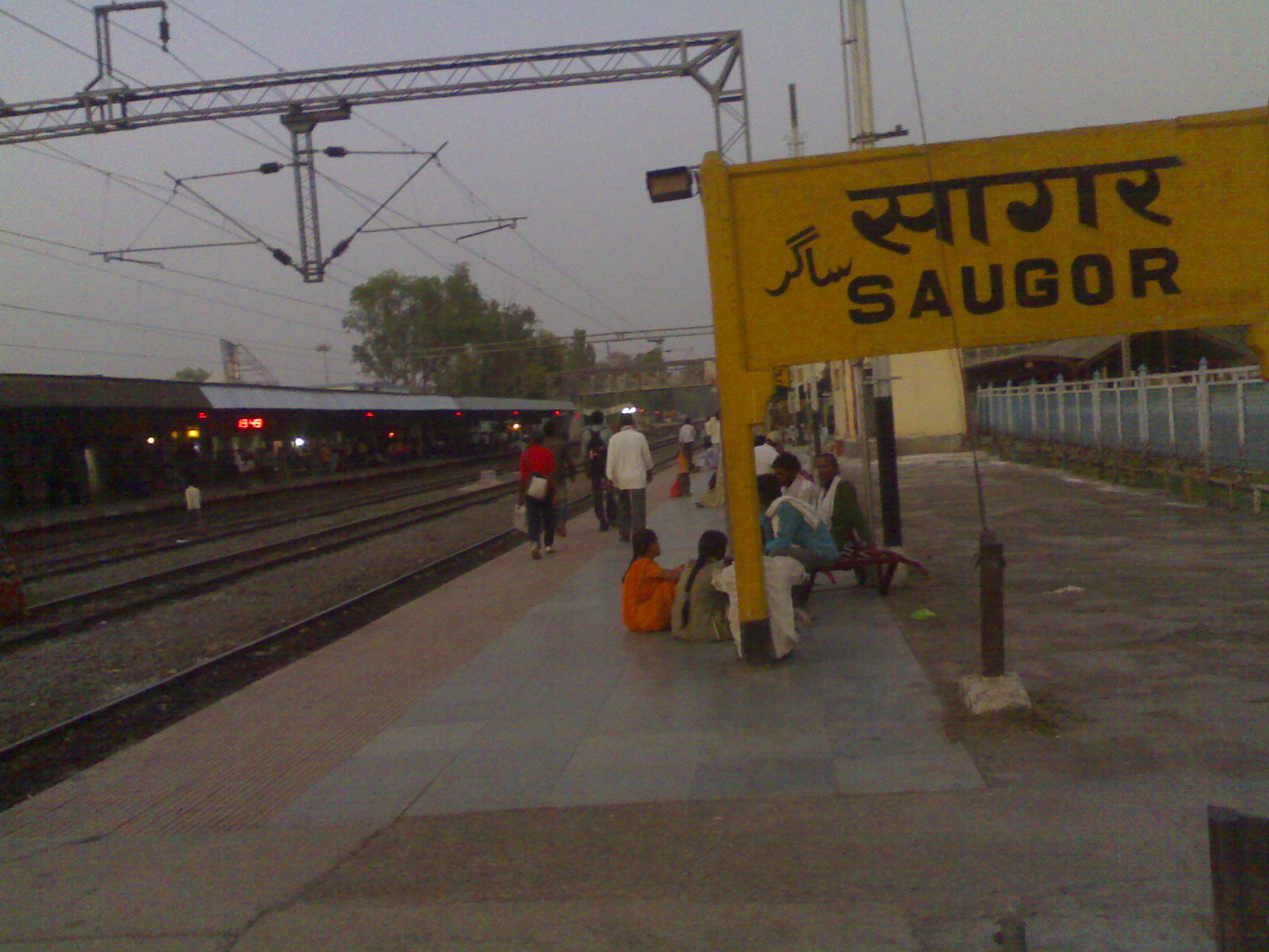 Saugor railway station they of platforms